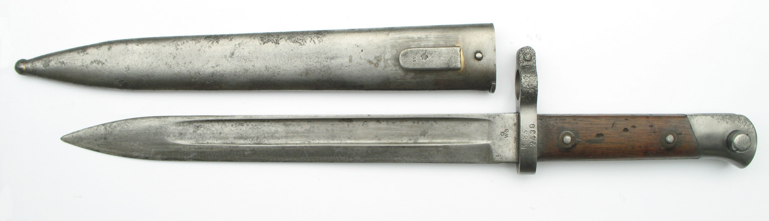 Mannlicher M1888 Bayonet for M1888 and M1890 Mannlicher rifles